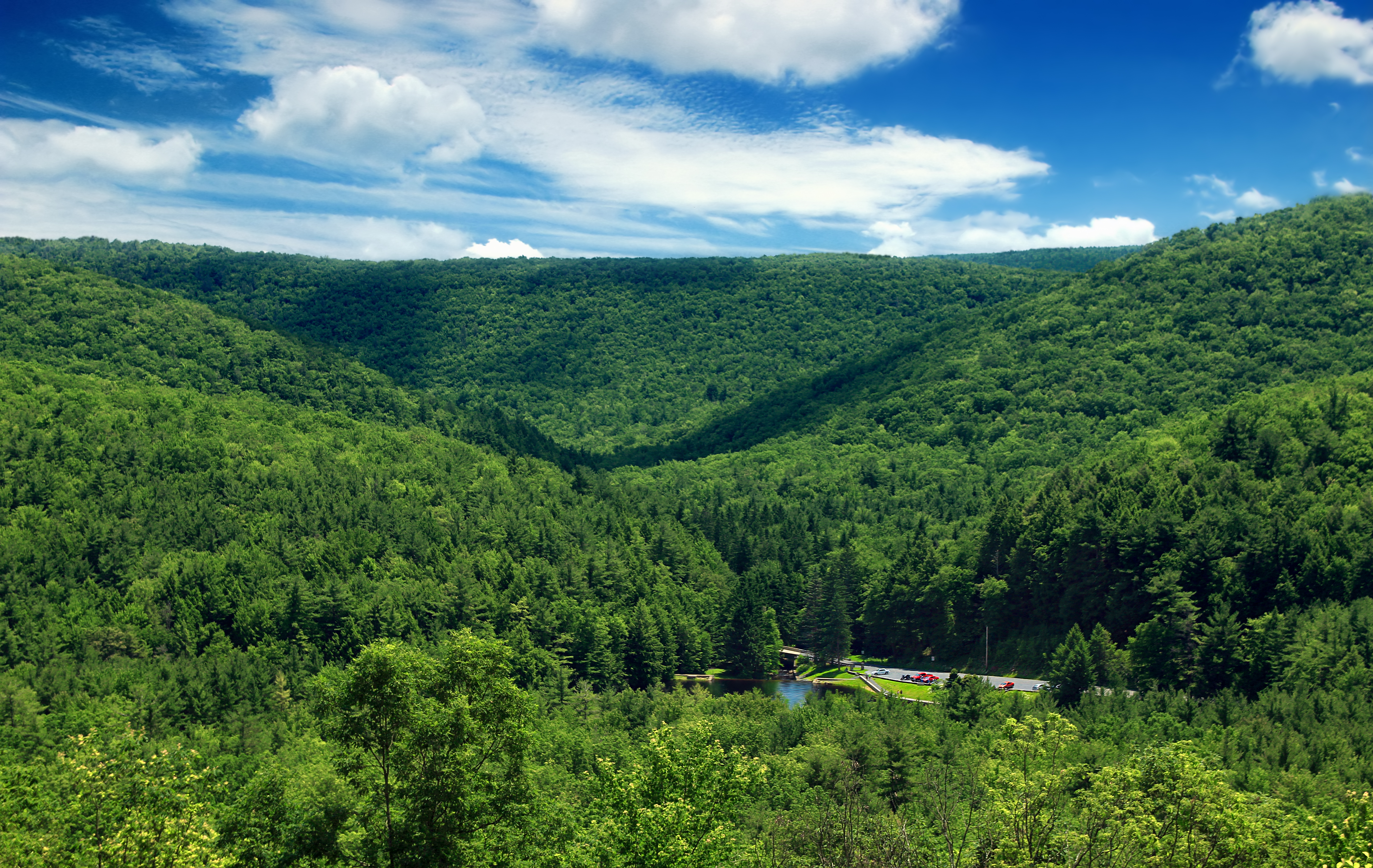 McCall Dam Road Overlook (zoomed-in view), Union County, within R.B. Winter State Park.